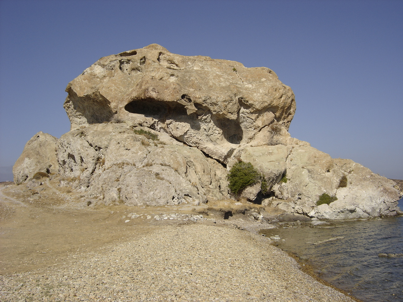 A rock at the Groikos beach in Patmos island, Greece